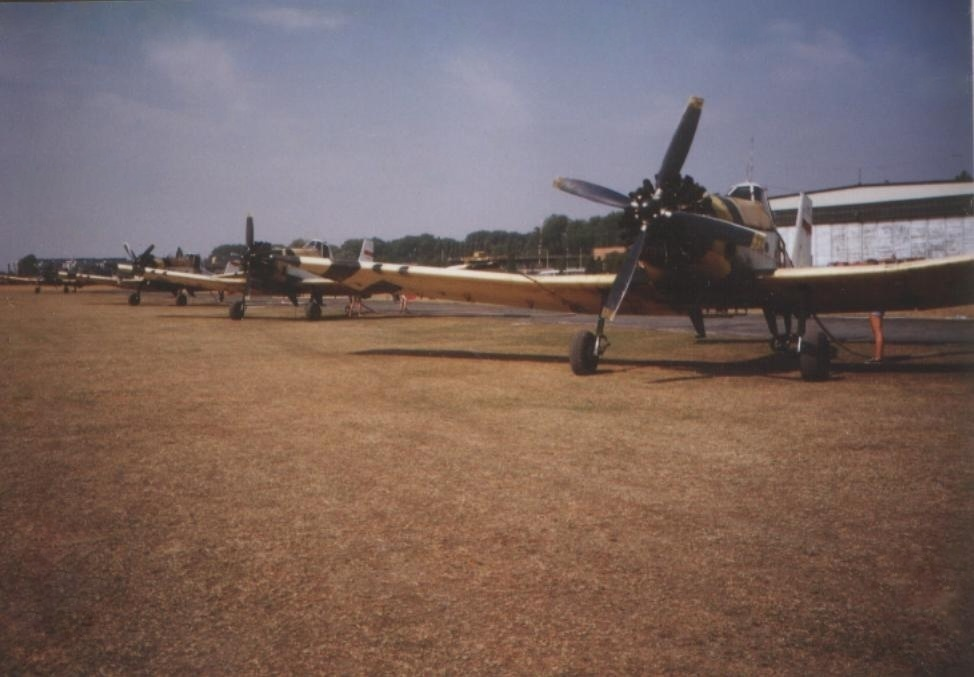 PZL-Mielec M-18 Dromader